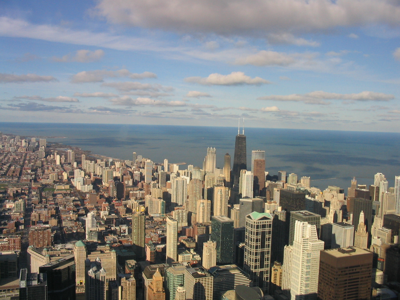 John Hancock Center and other buildings as seen from the Sears Tower